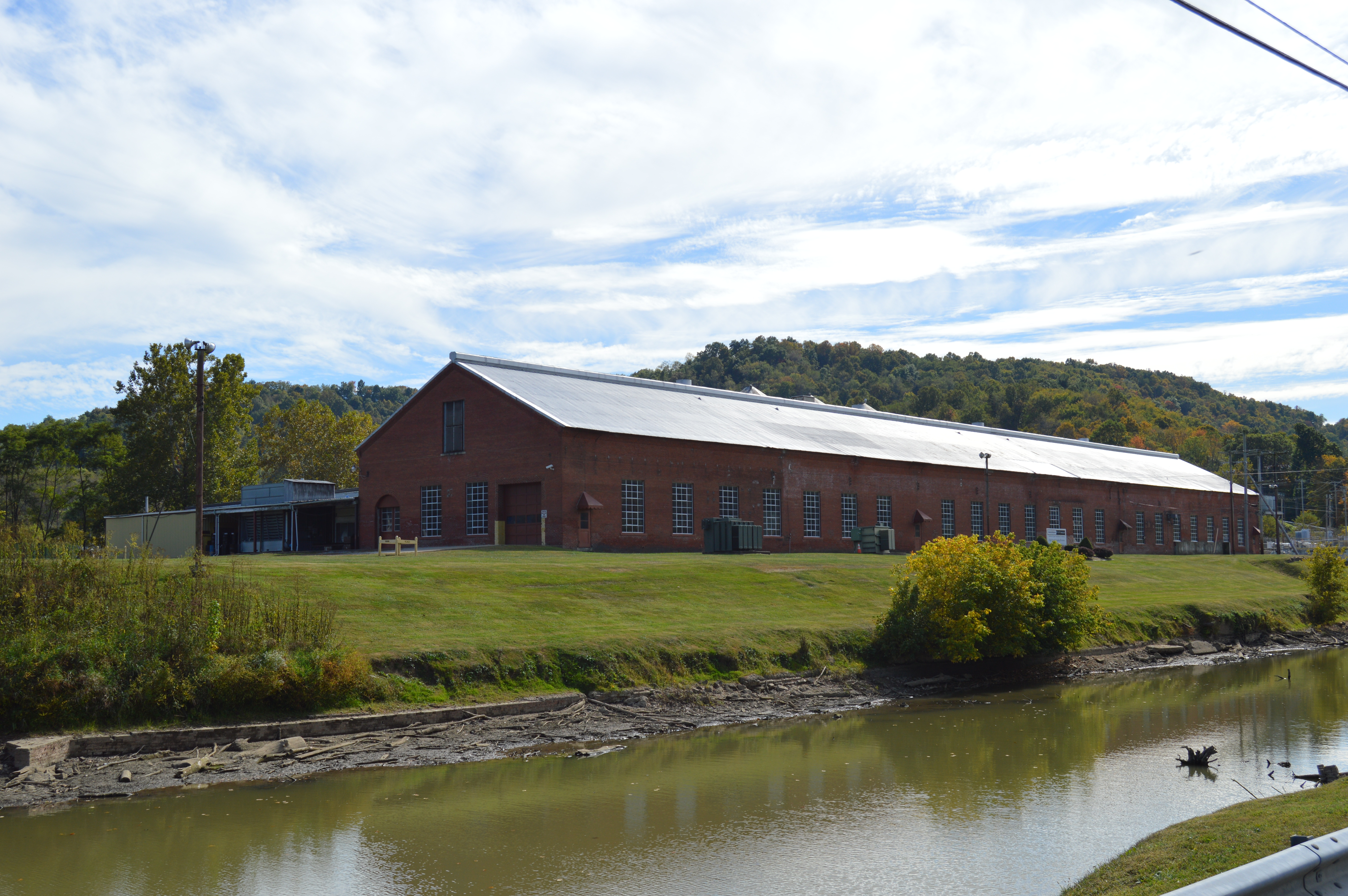 Overview of an industrial facility in Brave, Pennsylvania, United States. Photo looks southwest from Toms Run Road over Dunkard Creek.